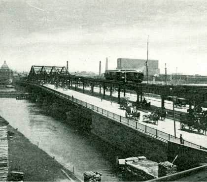 An elevated train runs over the Charlestown Bridge. This view looks towards center Boston.